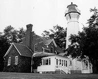 The Port Sanilac Light Station — in Port Sanilac, Michigan. Listed on the US National Register of Historic Places (NRHP #84001842). Historic American Buildings Survey—HABS image (1979).